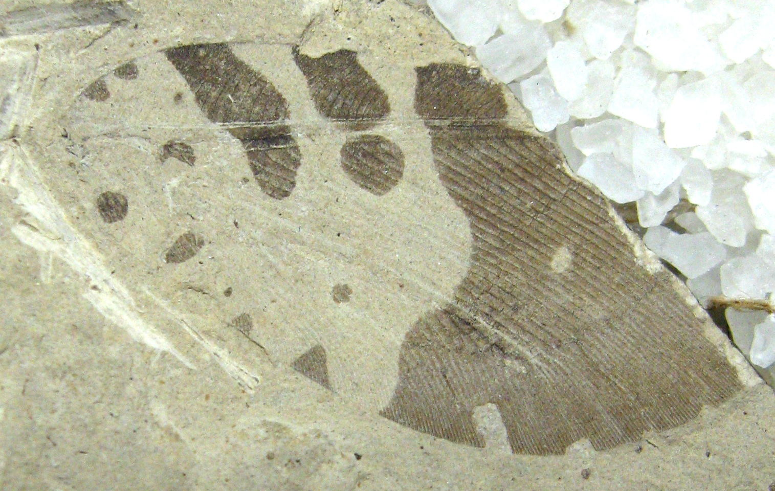 Palaeopsychops timmi holoytpe wing Stonerose Interpretive Center, Specimen #SR 02-25-01 Late Ypresian, Klondike Mountain Formation, Republic, Ferry County, Washington, USA The holotype, and only, specimen of the extinct species from the fossil outcrops in Republic, Ferry County Washington. This species is 49.5 +/-.05 million years old placing it in the late Ypresian, of the Eocene. This specimen is an incomplete left fore wing, missing the apex, and thus gender is not identifiable. based on specimens of closely related species this wing may have reached 44mm long and 20 mm wide.